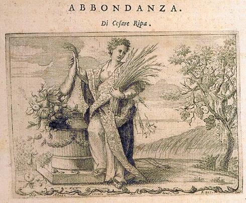 Cornucopia